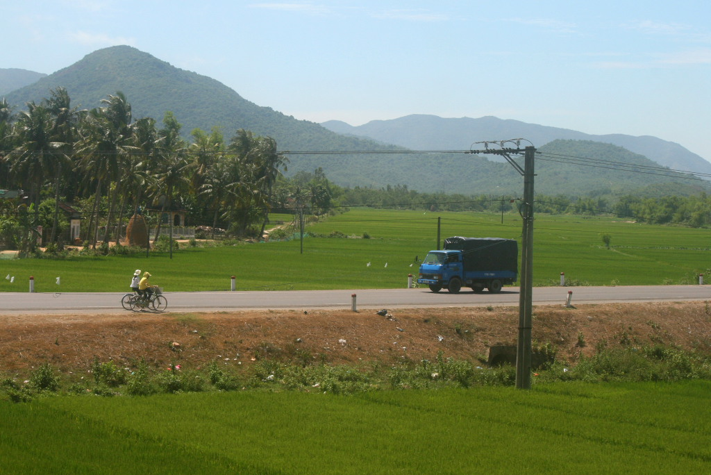 National Road 1A in Binh Dinh Province, Vietnam